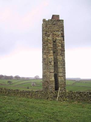 Sighting tower in Carlesmoor near the River Laver.